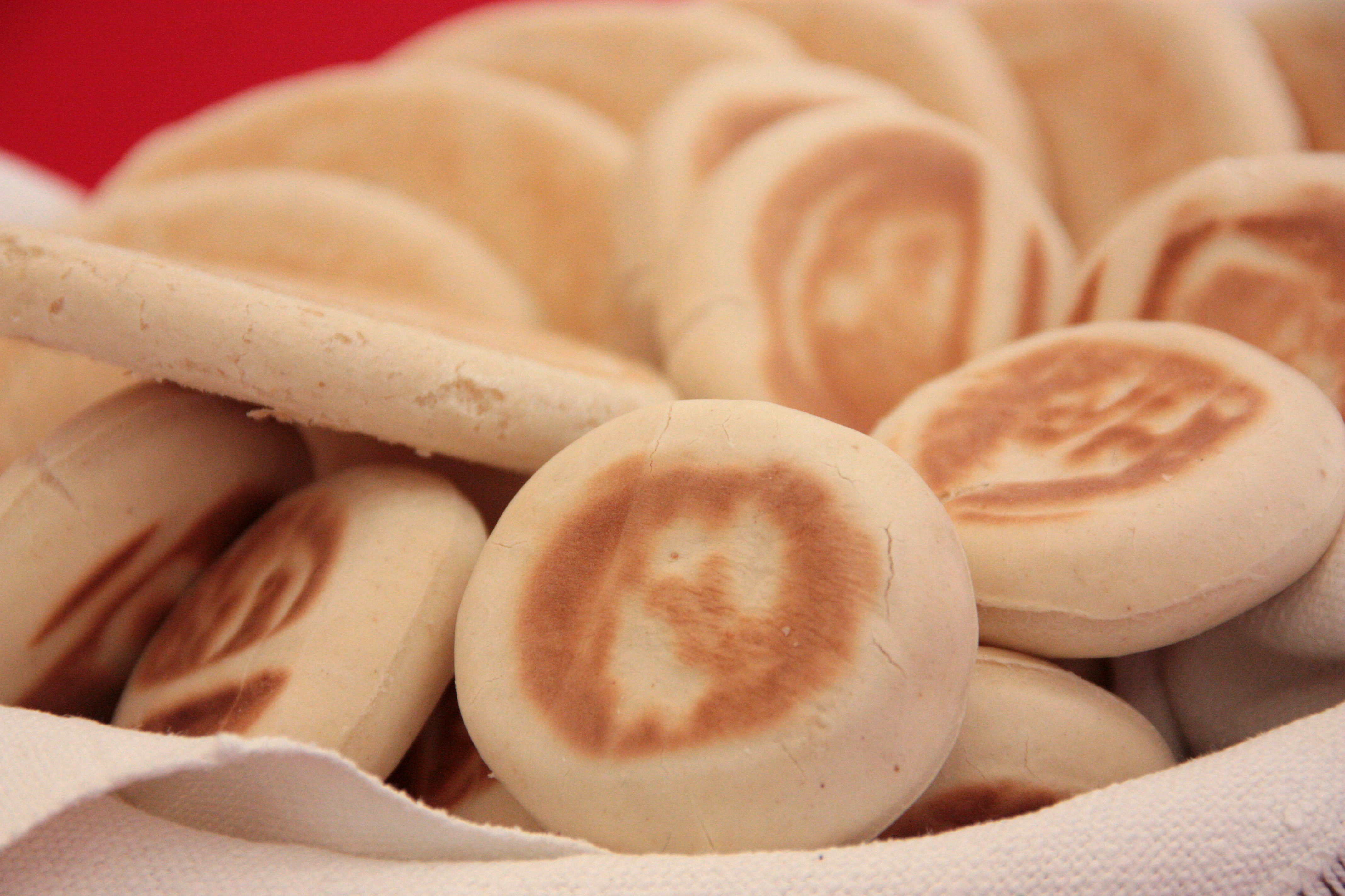 Tigelle is a typical dish of Modena, made of backed pastry and often eaten with salami and ham.